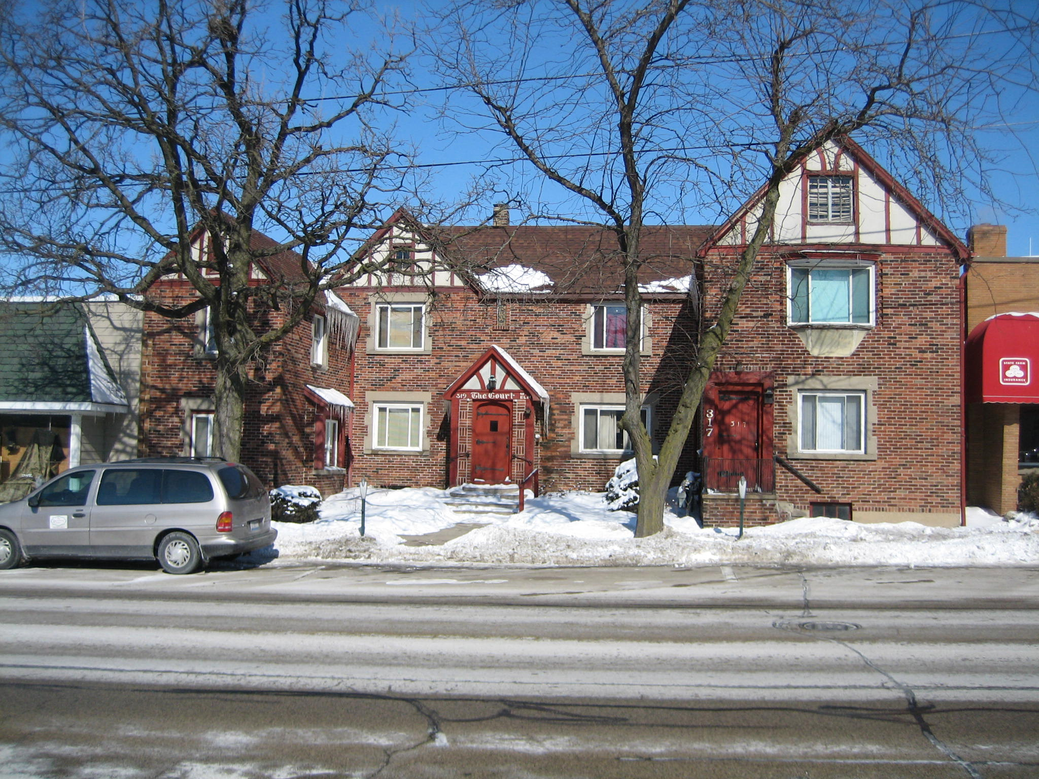 319 W Elm St., "The Court" Building, Sycamore, Illinois. Sycamore Historic District, National Register of Historic Places.